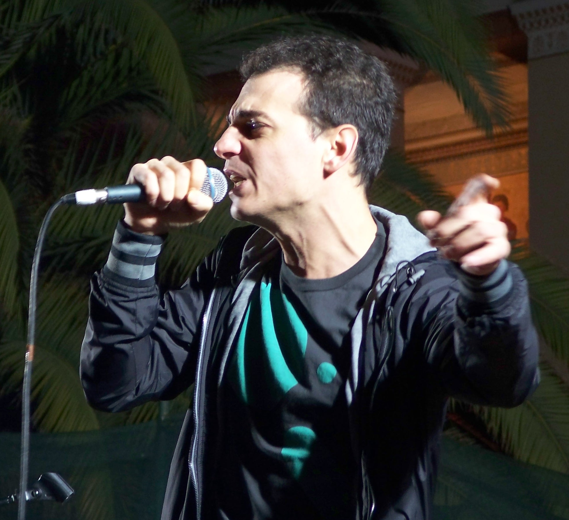 Greek singer Manolis Famellos.